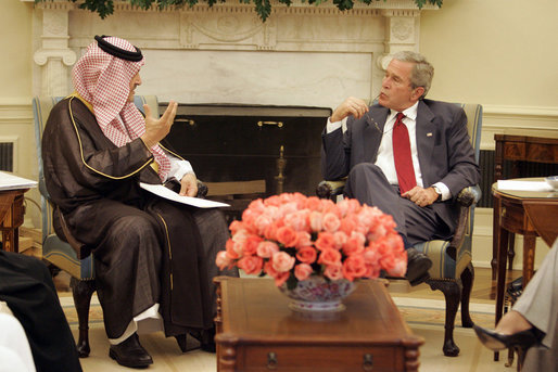 President George W. Bush meets with Foreign Minister Prince Saud Al Faisal of Saudi Arabia in the Oval Office, Sunday, July 23, 2006.